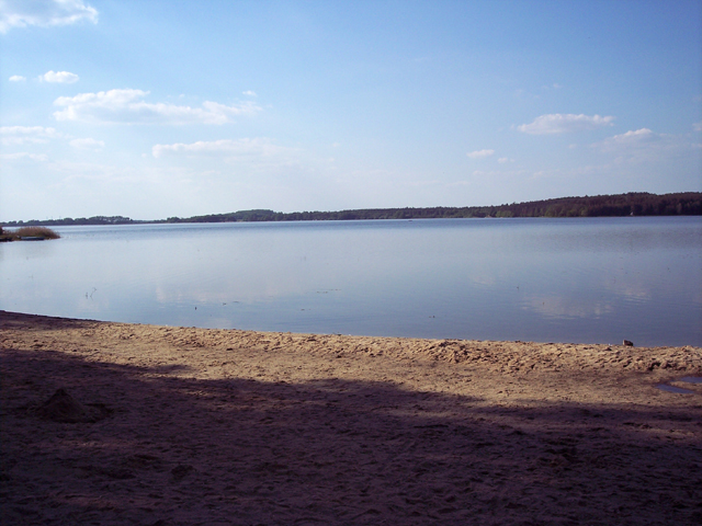 View on Quitzdorf Reservoir